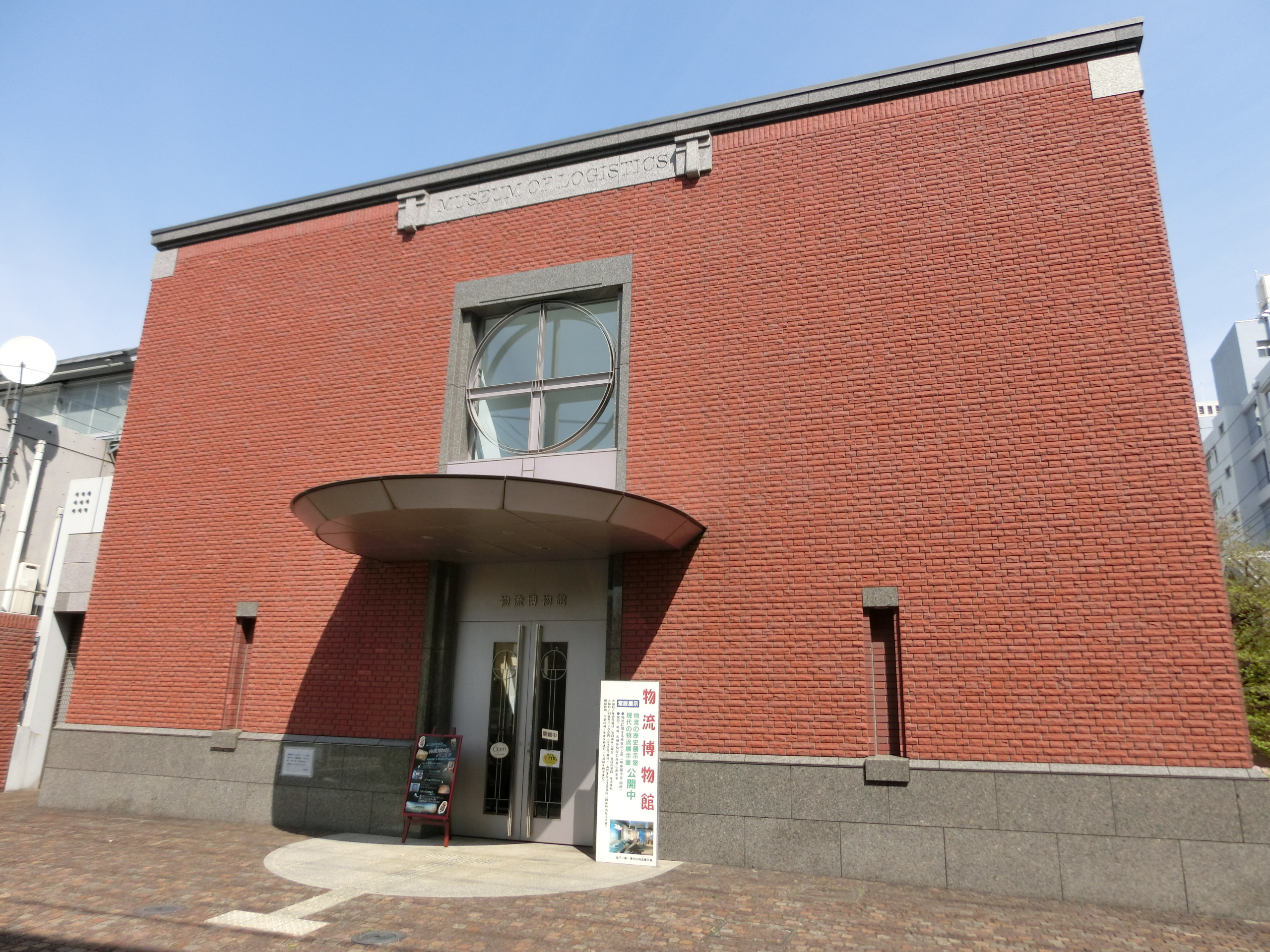 Museum of Logistics